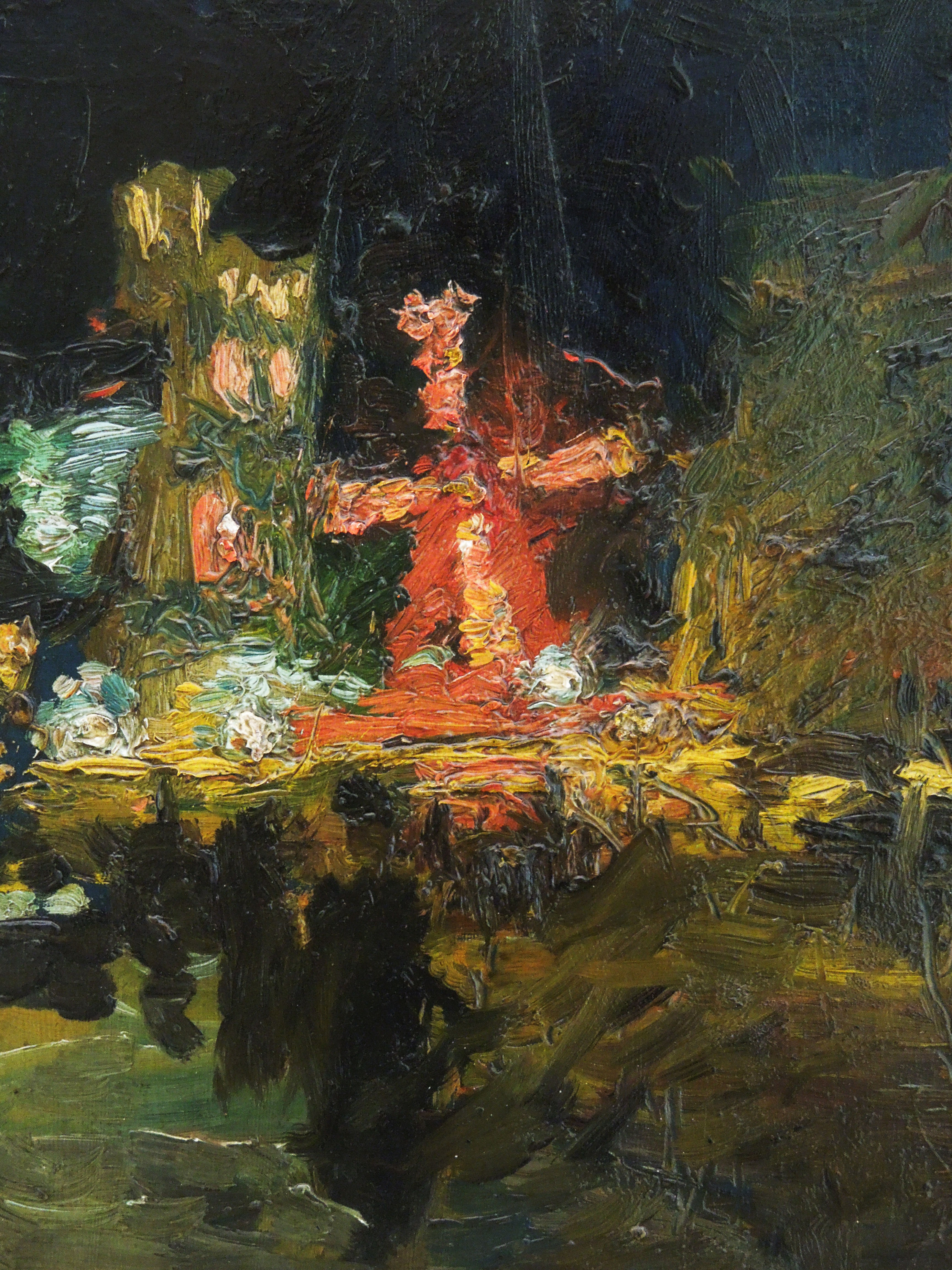 Ludwik de Laveaux - Moulin Rouge in Paris at night, 1892